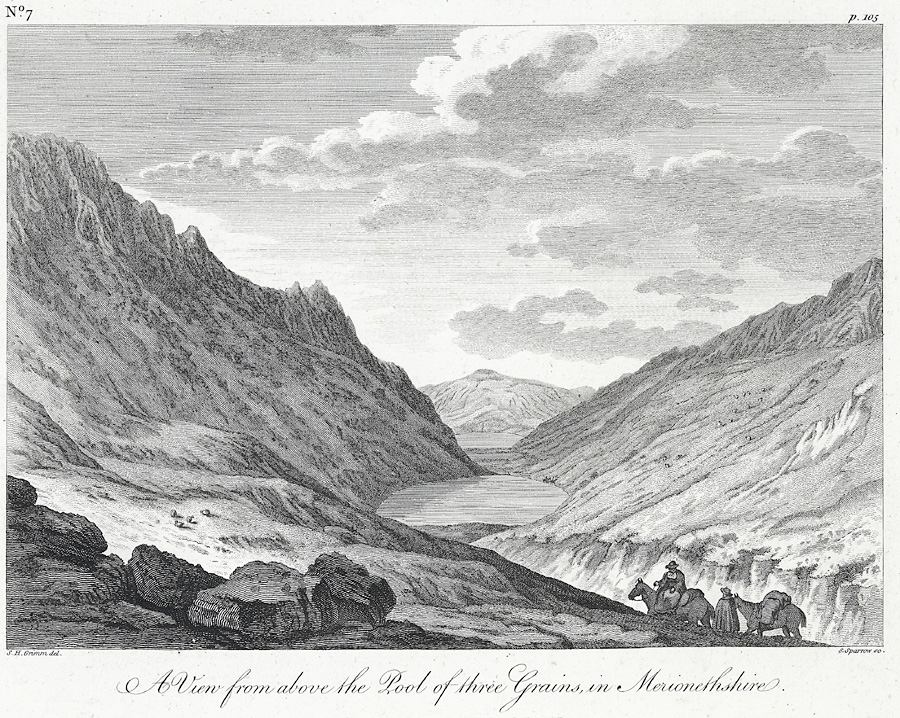 Two travellers with horses.